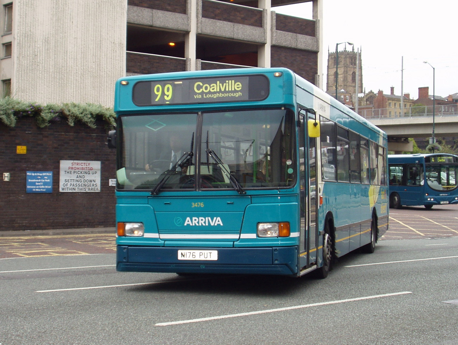 Arriva Fox County 3476 (N176 PUT), a Coalville depot based Scania L113/East Lancs European, leaving Nottingham Broadmarsh bus station on service 99.